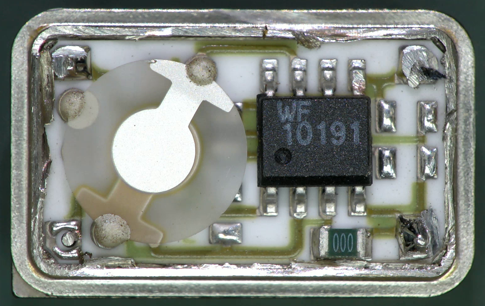 Inside a modern DIP package quartz crystal oscillator module. It includes a ceramic PCB base, oscillator and divider chip (/8), bypass capacitor, and an AT cut crystal.